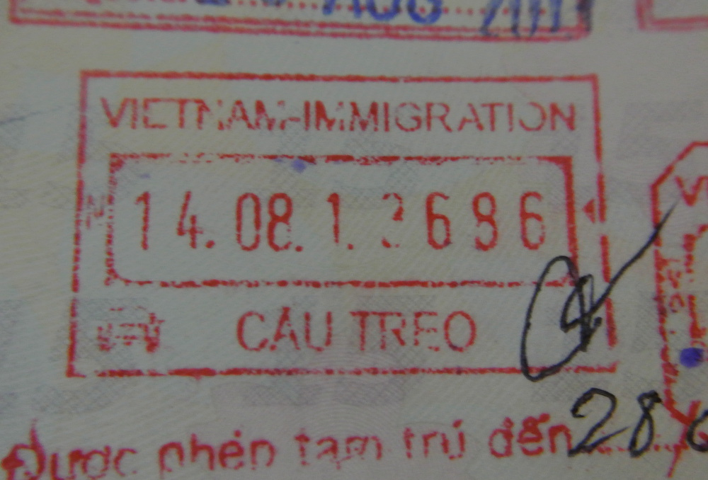 Cau Treo international border entry stamp to Vietnam